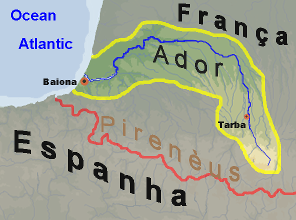 Ador-Occitan version.